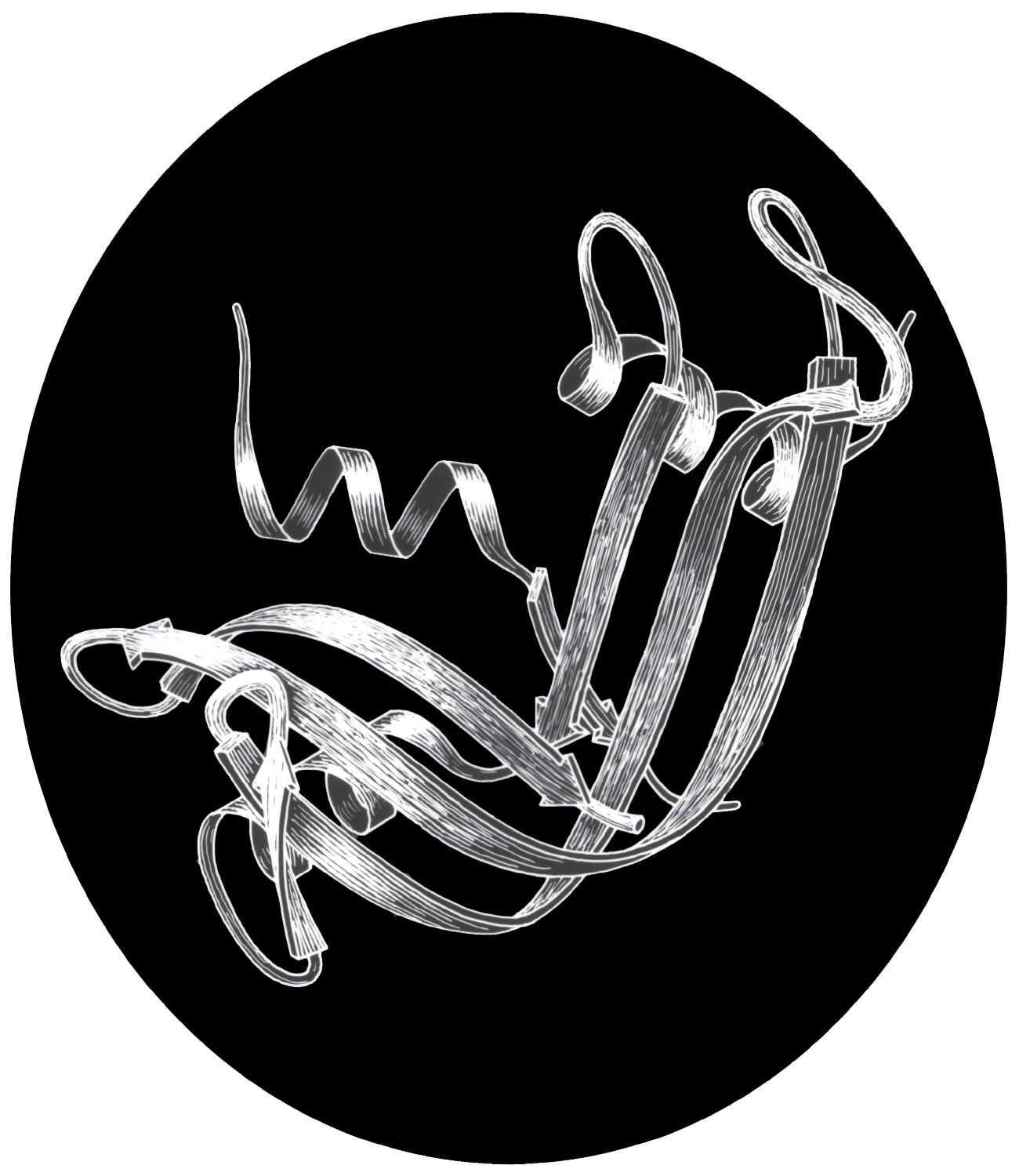 Scratchboard drawing of ribonuclease S (ribonuclease A cleaved by subtilisin between residues 20 and 21, but still folded). Crystal structure by H. W. Wyckoff & F. M. Richards in 1967.[1] Image hand-drawn by Jane S. Richardson in 1980 as the frontispiece to Anatomy and Taxonomy of Protein Structures.[2] ↑ Wyckoff HW, Hardman KD, Allewell NM, Inagami T, Johnson LN, Richards FM (1967). "The structure of ribonuclease-S at 3.5 Å resolution". J Biol Chem 242: 3984-3988. ↑ Richardson JS (1981). "The Anatomy and Taxonomy of Protein Structures". Adv Protein Chem 34: 167-339.